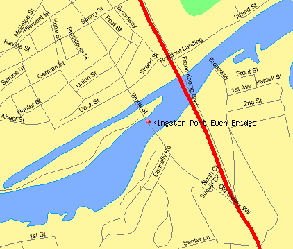 Map of the location of the Kingston-Port Ewen Suspension Bridge in Kingston, New York